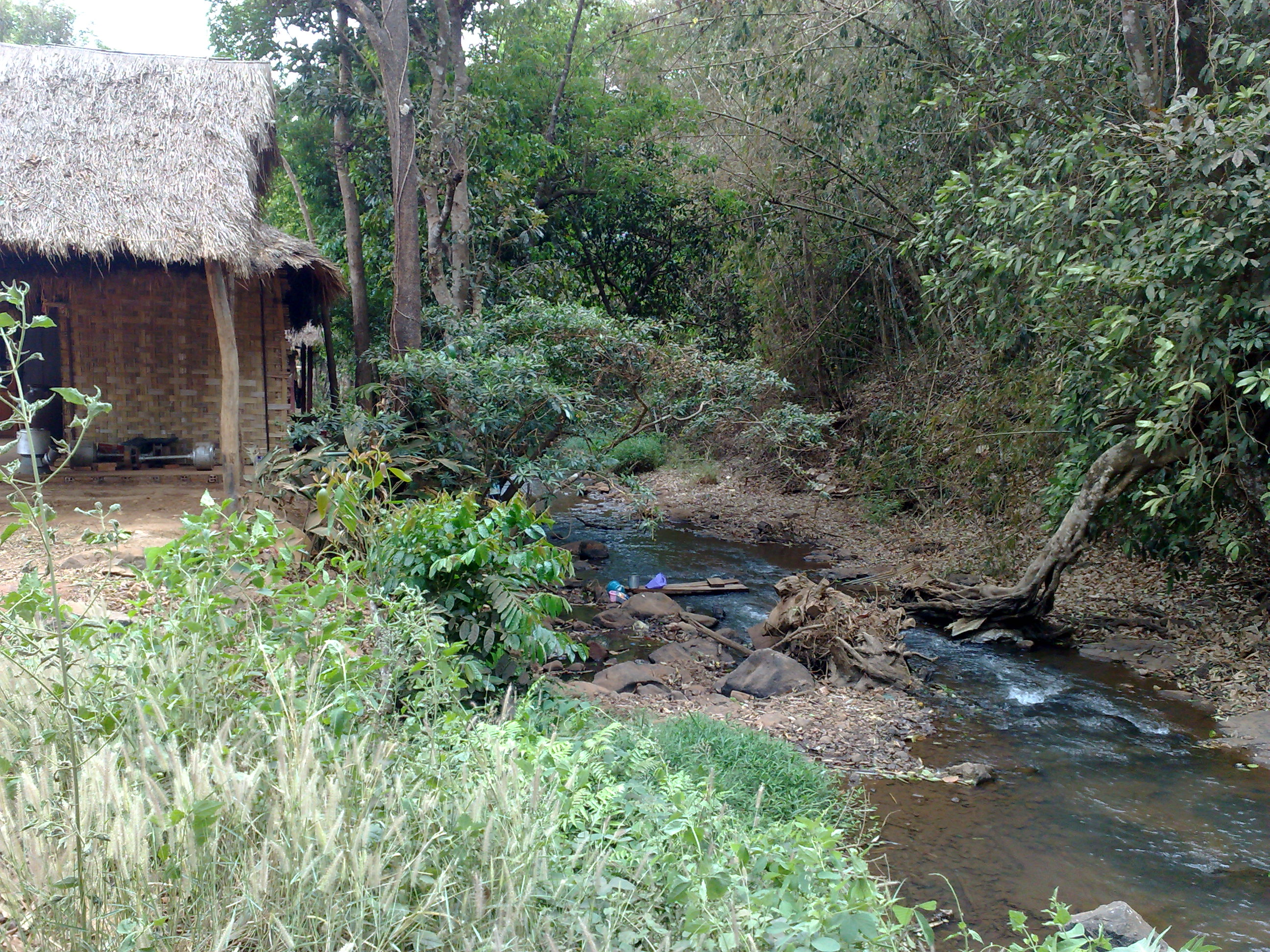 Hut and river near Sen Monorom in Cambodia's eastern Mondulkiri province. Picture taken on 16 March 2011.